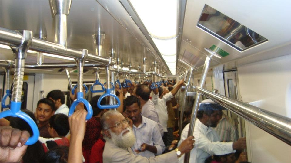 The crowd on the first day after the opening of the Bangalore Metro, Bangalore